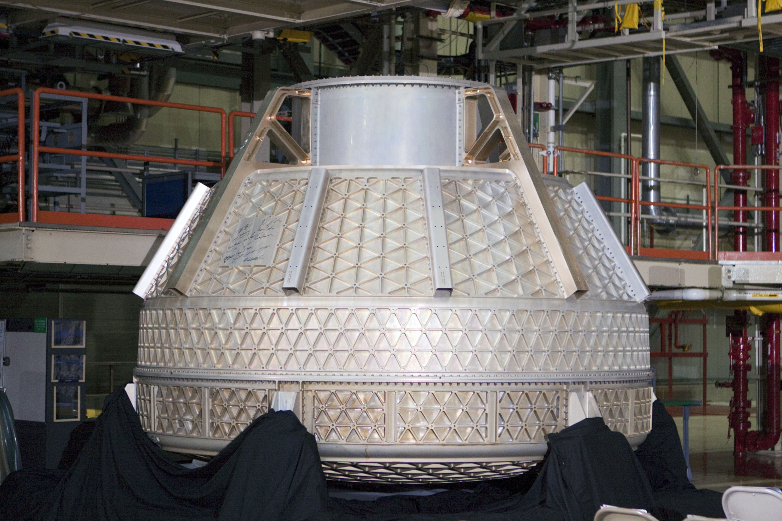 CAPE CANAVERAL, Fla. – In the Orbiter Processing Facility-3 (OPF-3) at NASA’s Kennedy Space Center in Florida, a pressure vessel for The Boeing Company’s CST-100 spacecraft is unveiled at the ceremony announcing the signing of an innovative agreement between NASA and Space Florida. NASA announced a partnership with Space Florida to occupy, use and modify Kennedy Space Center's Orbiter Processing Facility-3 (OPF-3), the Space Shuttle Main Engine Processing Facility and Processing Control Center. Space Florida has an agreement for use of the OPF-3 with the Boeing Company to manufacture and test the company's Crew Space Transportation (CST-100) spacecraft. The 15-year use permit deal is the latest step Kennedy is making as the center transitions from a historically government-only launch complex to a multi-user spaceport.